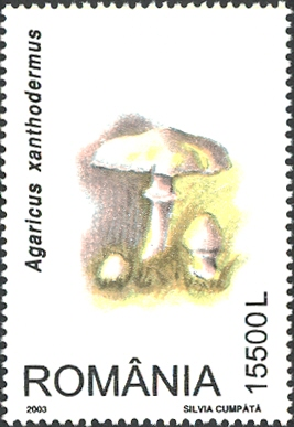 Stamps of Romania, 2003